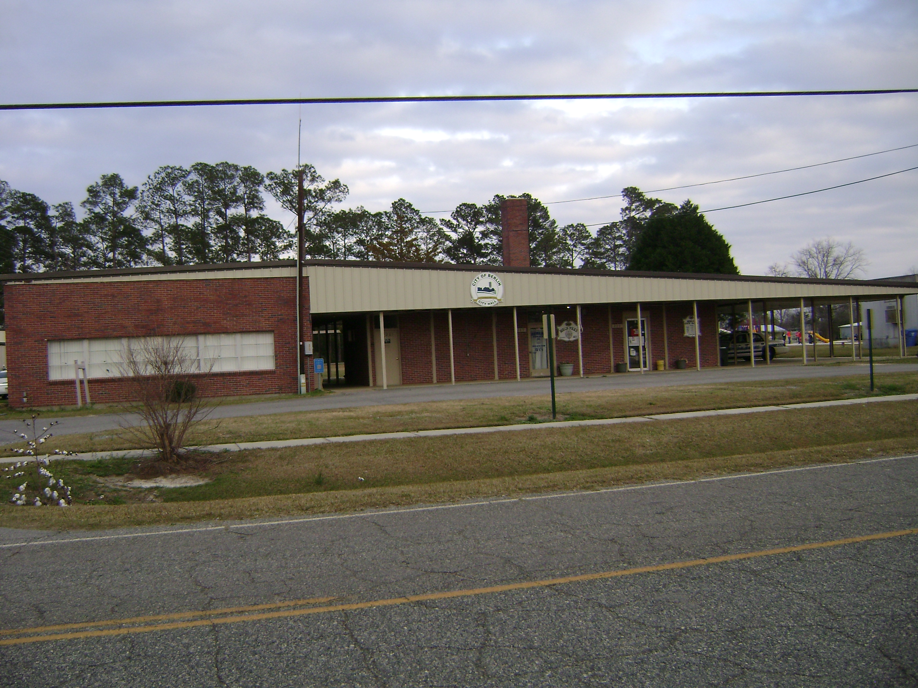 Berlin City Hall (which looks like a former school building, Berlin, Colquitt County, Georgia